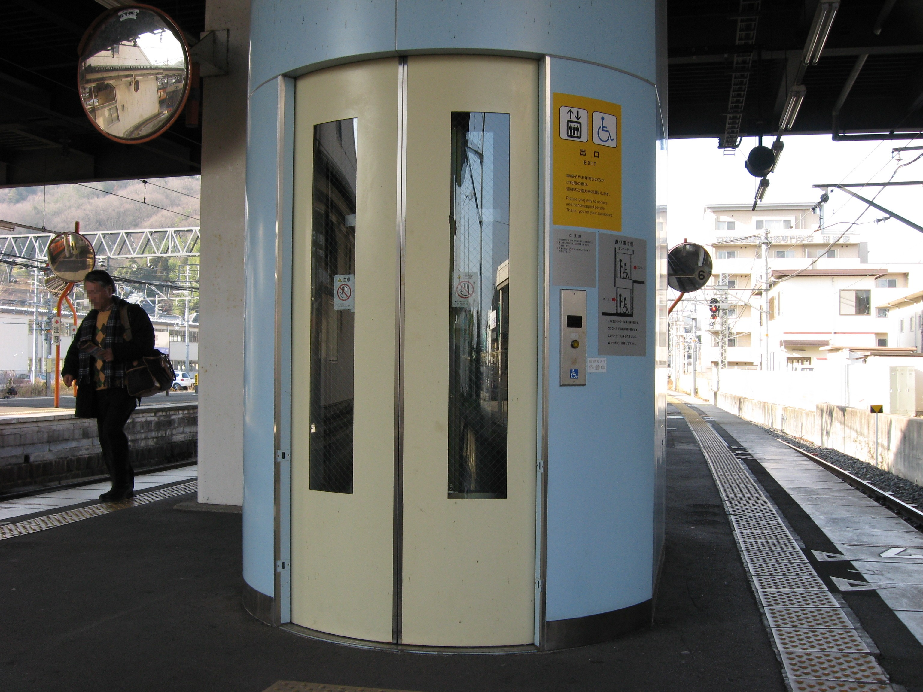 This is the elevator of Sonobe Station. As for this, a door becomes the curved surface.